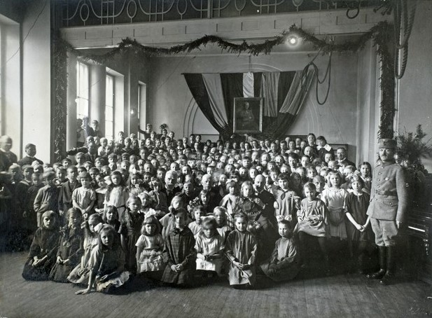 Finnish White Guard officer giving a propaganda lecture for school kids with the portrait of the German general Rüdiger von der Golz in the background.